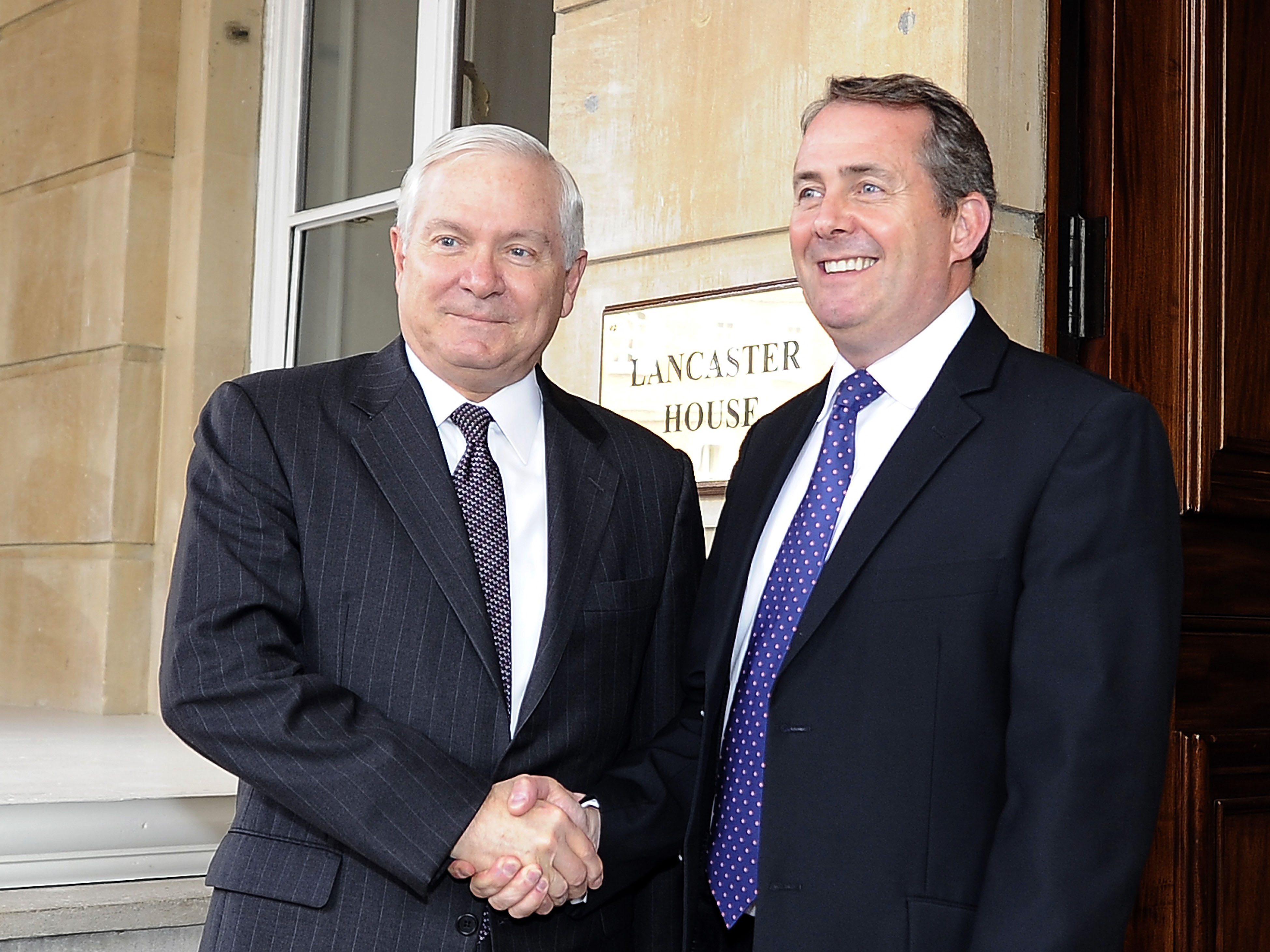 Secretary of Defense Robert M. Gates poses for photos with British Defense Secretary Liam Fox at the Lancaster House in London on June 8, 2010.